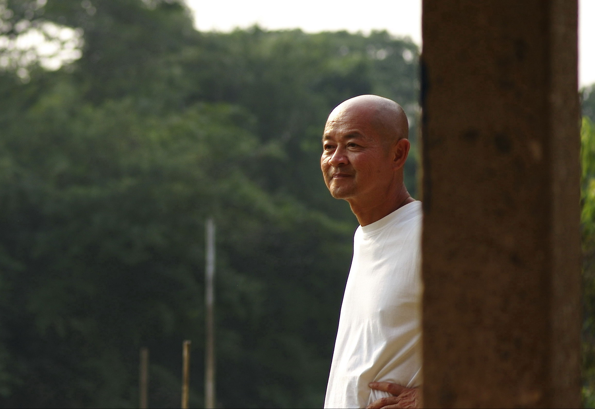 Writers Fa Poonvolalak